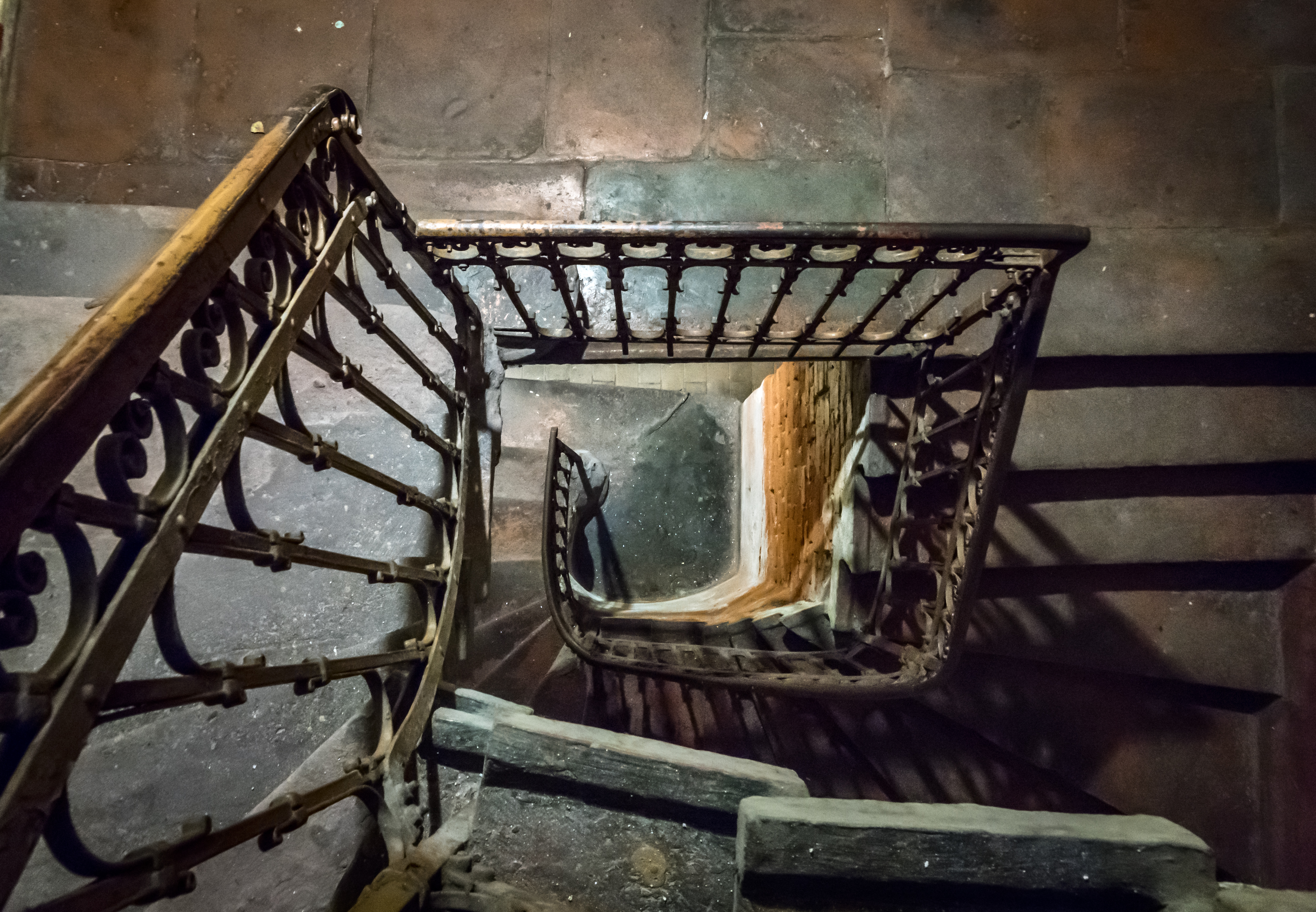 Staircase, Haouse of Weavers, ul. Nadrzeczna 1., Nowa Ruda